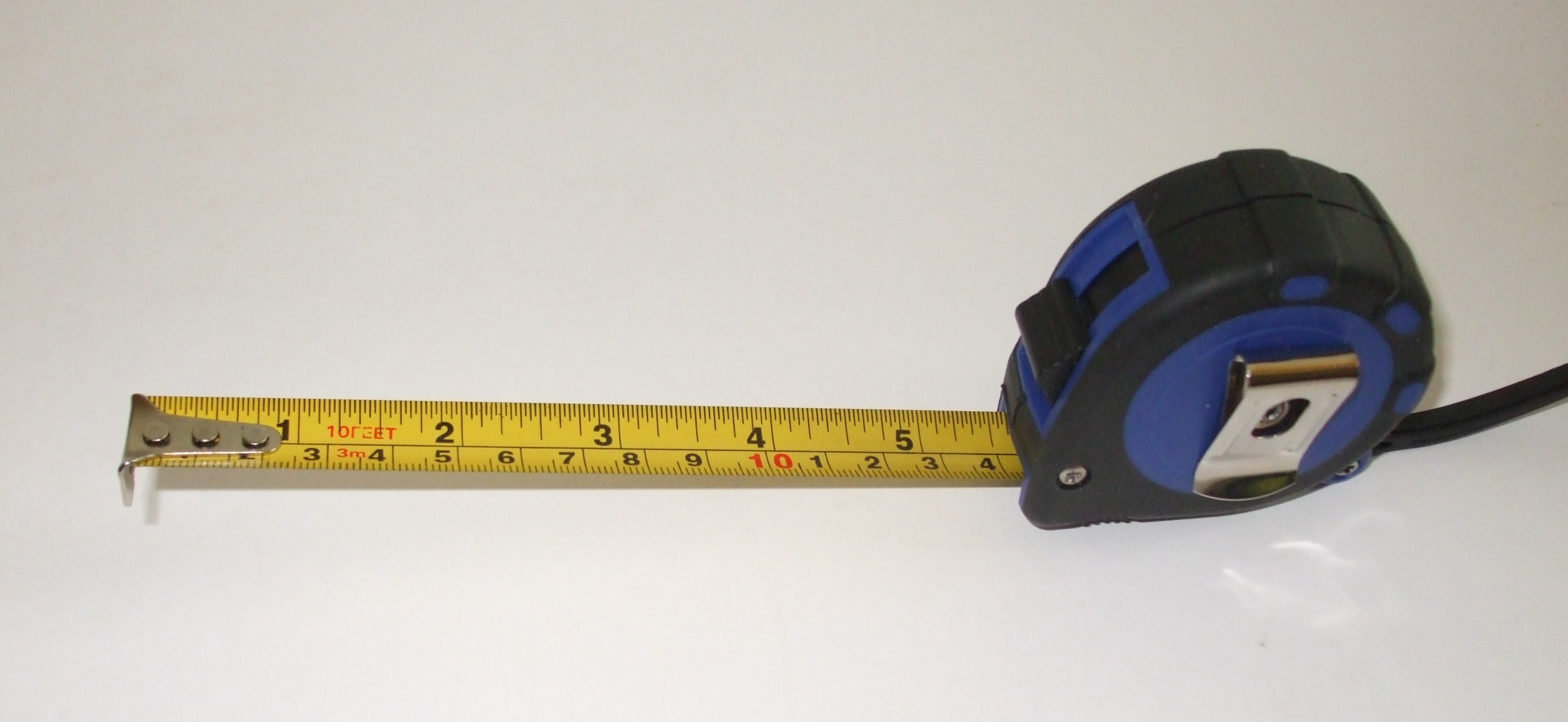 2scale, cm and inch/feet